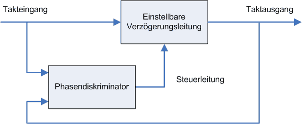 Schematic diagram of a delay locked loop (DLL)